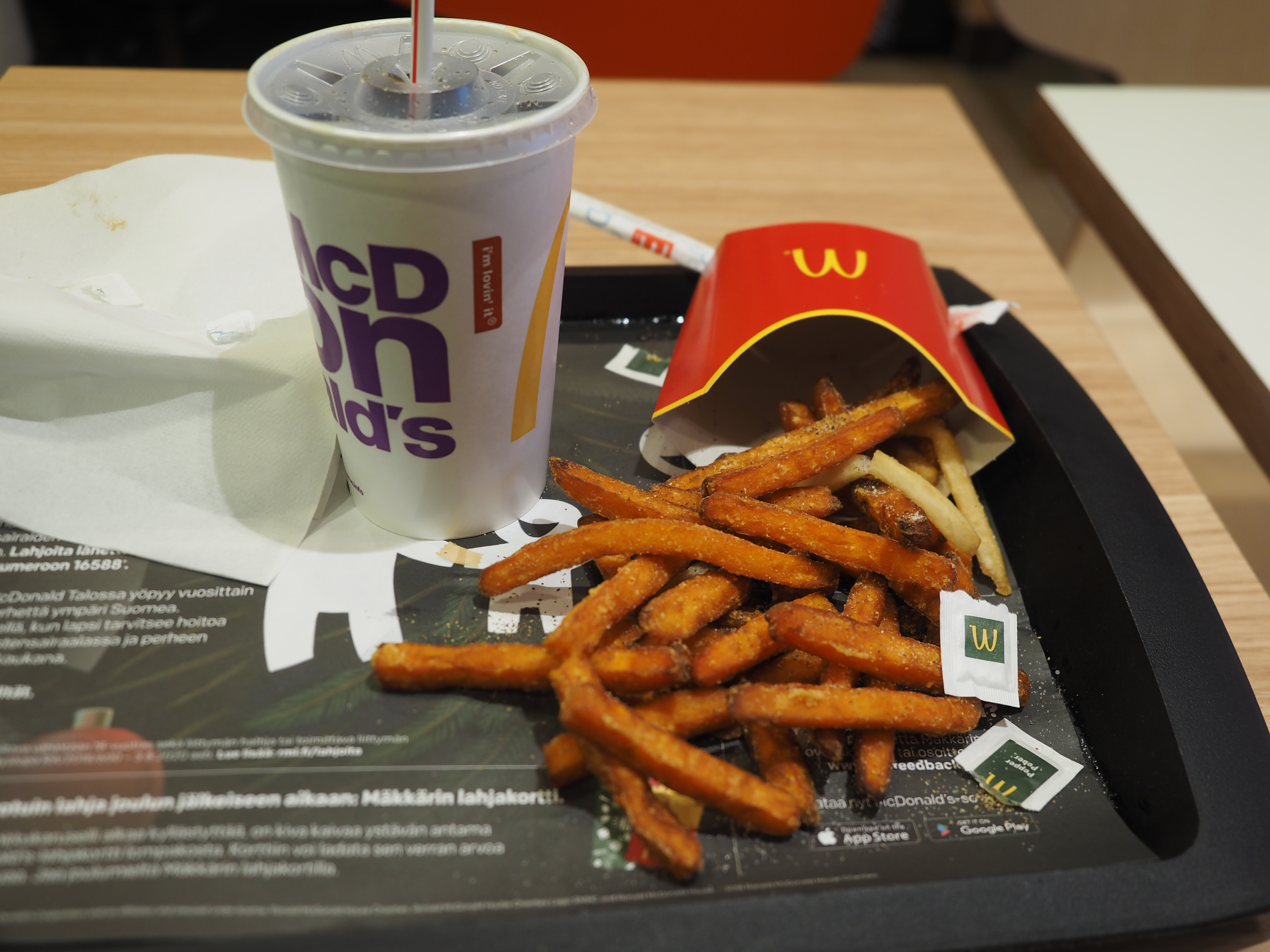 Fries made of sweet potato rather than potato, served at a McDonald's in Helsinki, Finland.